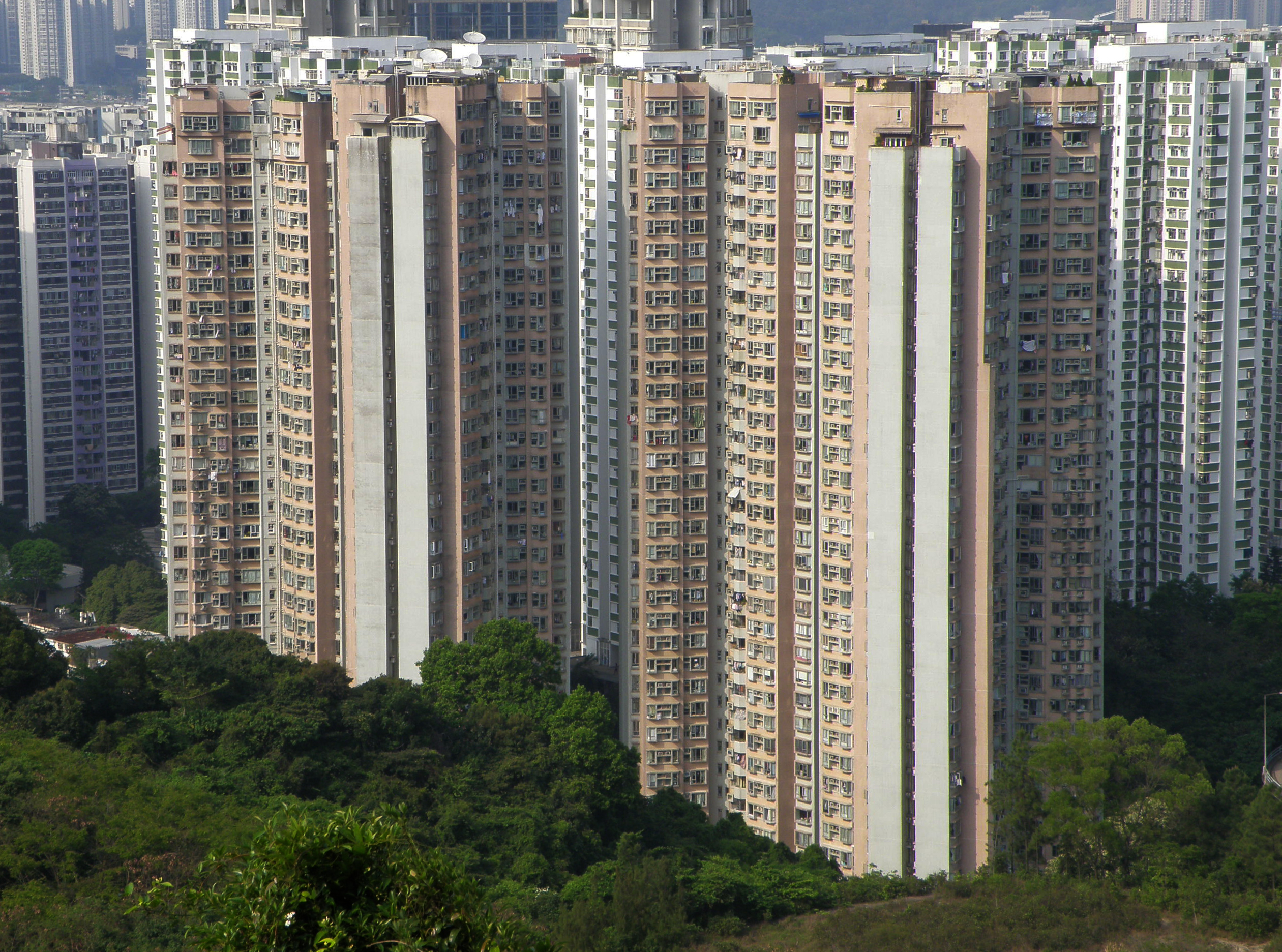 Mt. Parker Lodge in Tai Koo, Hong Kong.